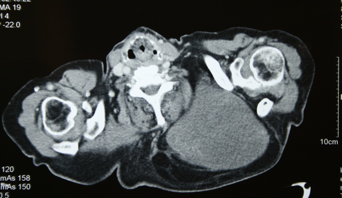 87 year old man with a liposarcoma. Chest CT-scan.